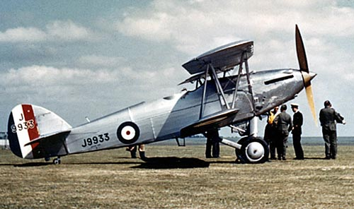 Camm Hart 500. This is almost certainly a photo of G-ABMR dressed as the first production Hart J9933, as she was between 1959 and 1970.